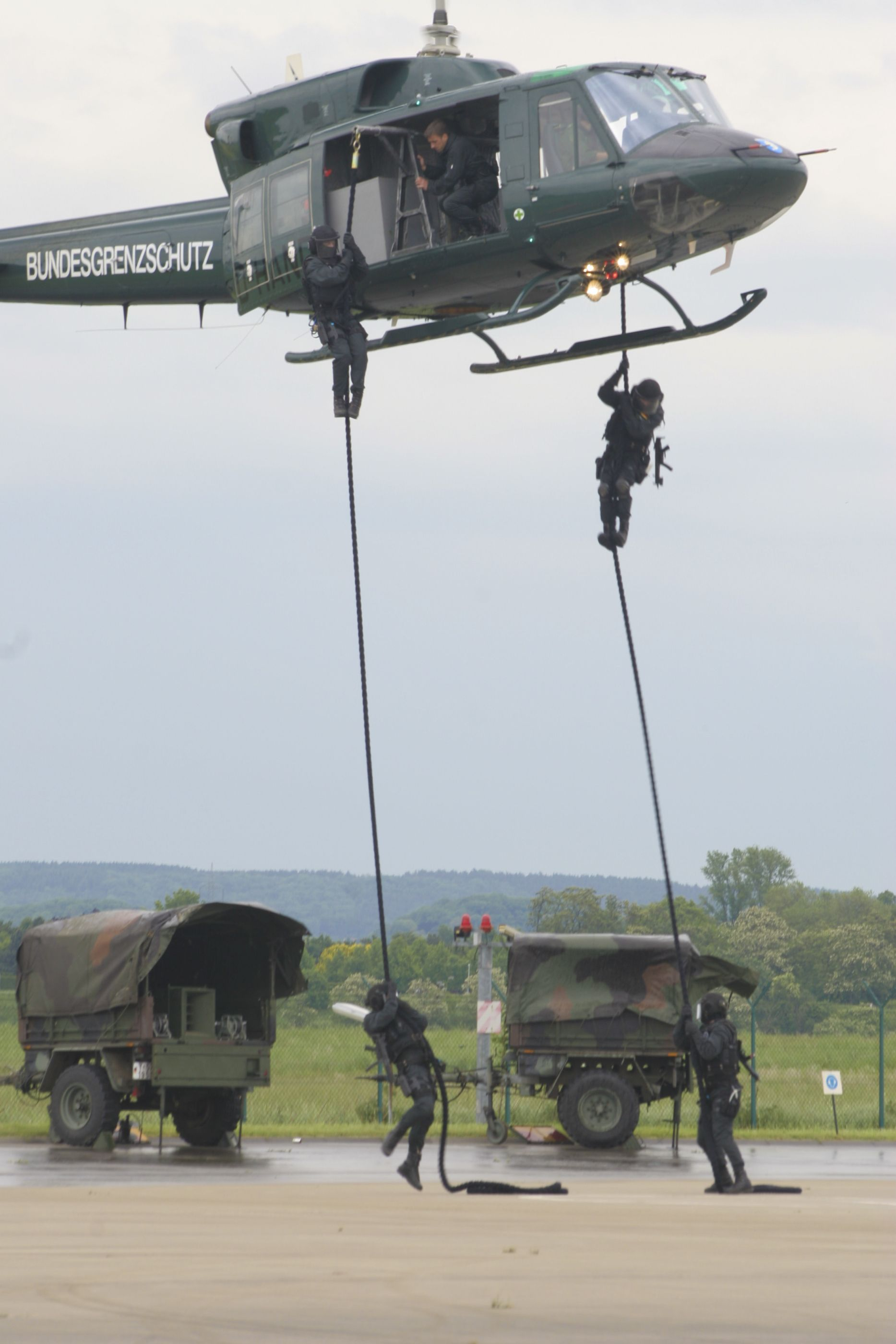 Demonstration of the GSG9 elite plice unit in St. Augustin.